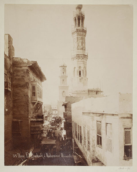 Photos by Jean Pascal Sebah